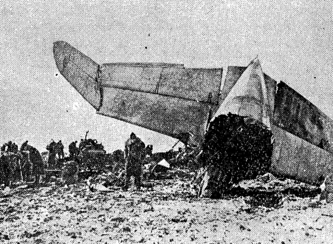 Air disaster site of LOT Polish Airlines Vickers Viscount